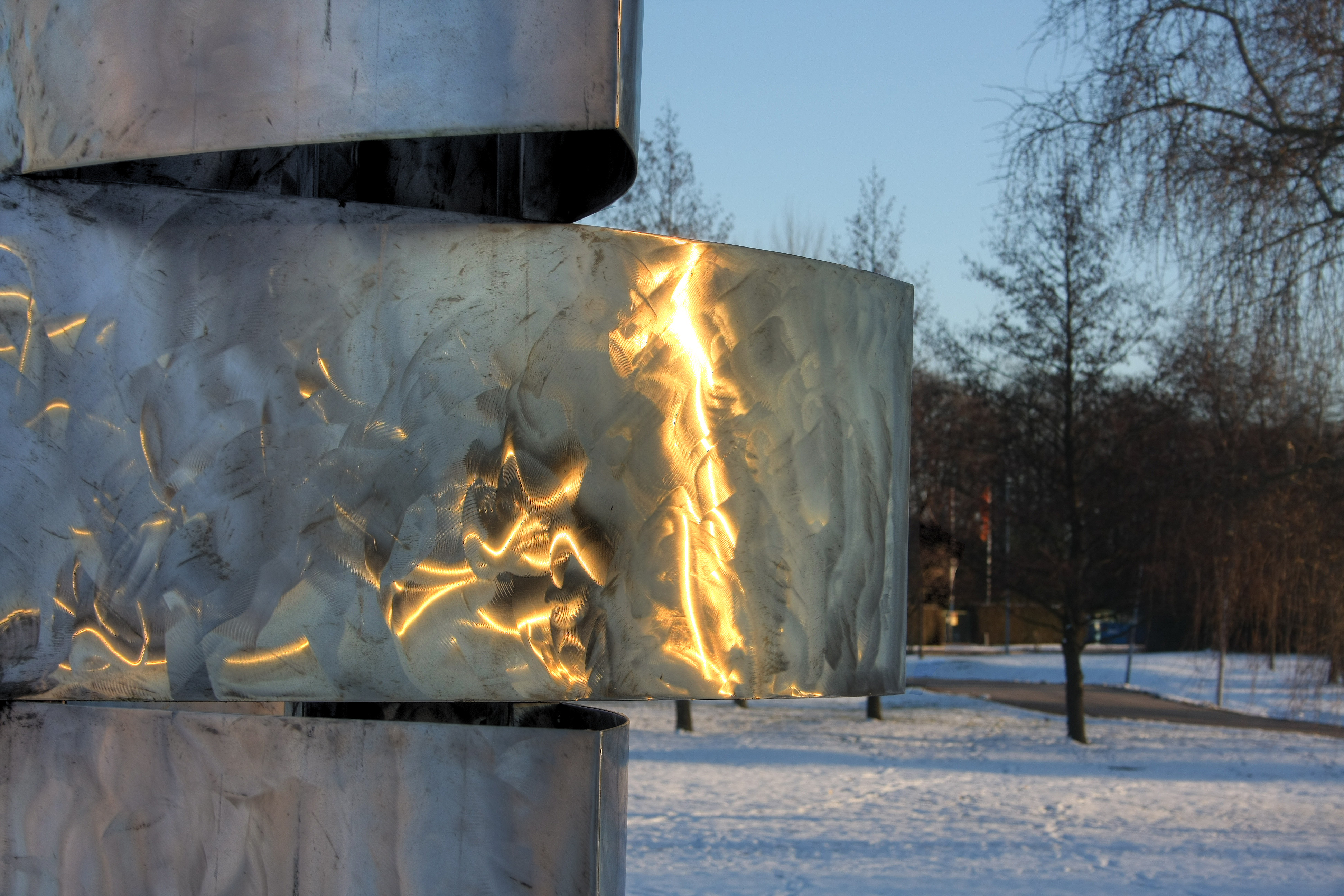 Stainless steel sculpture Begynnelse (Beginning) in Eslöv, Sweden, by Alexius Huber